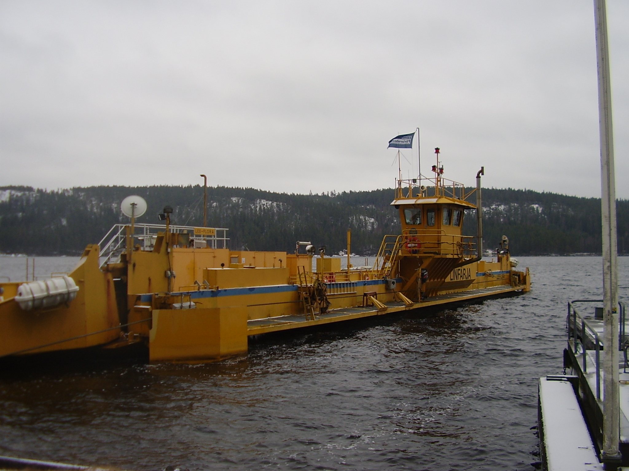 The Swedish car ferry Lee-Flora.